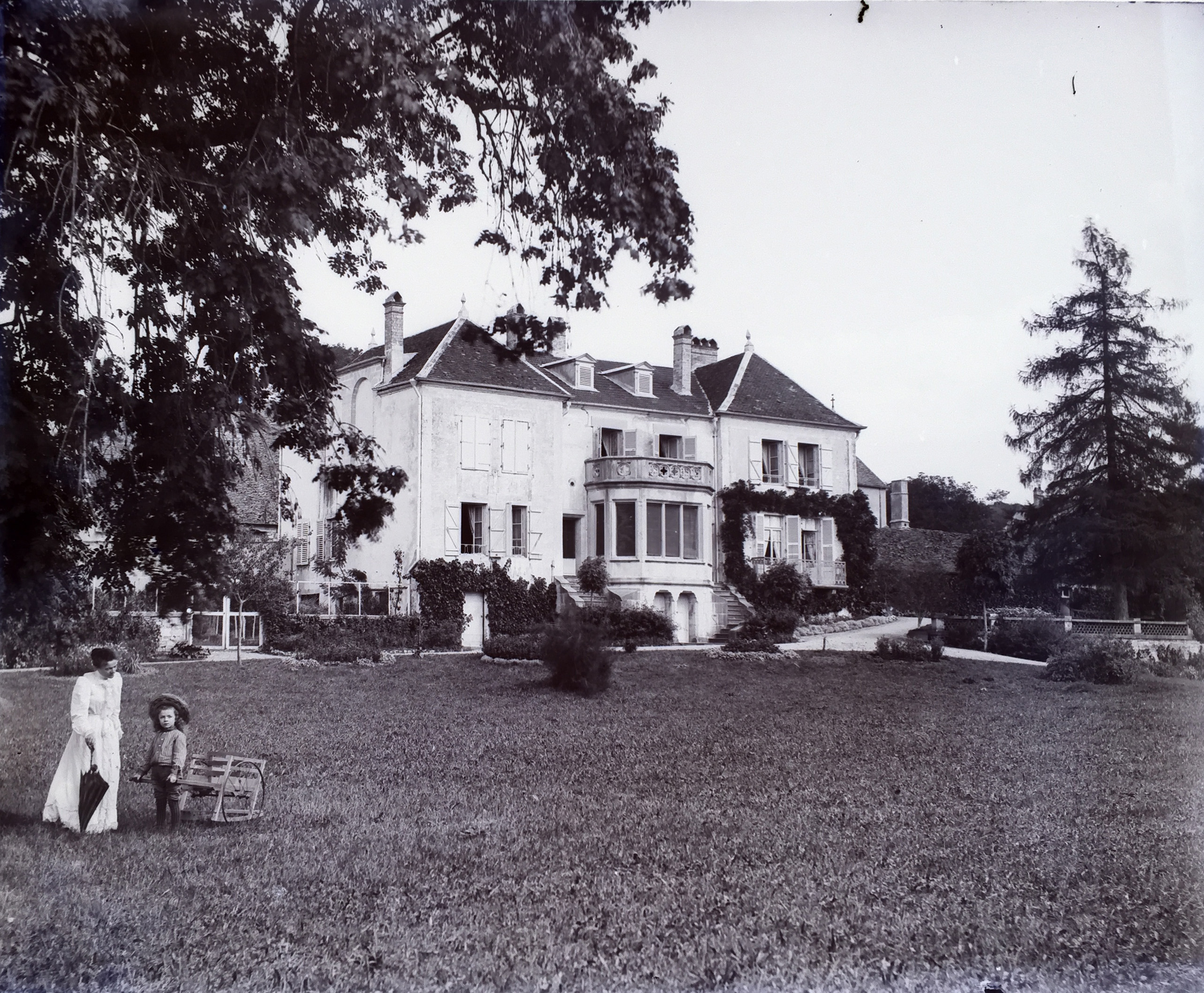 The House of Jules-Alexis Muenier in Coulevon